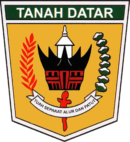 Lambang (Coat of Arms) of Kabupaten (Regency) Tanah Datar, Provinsi Sumatera Barat (West Sumatra Province), Indonesia